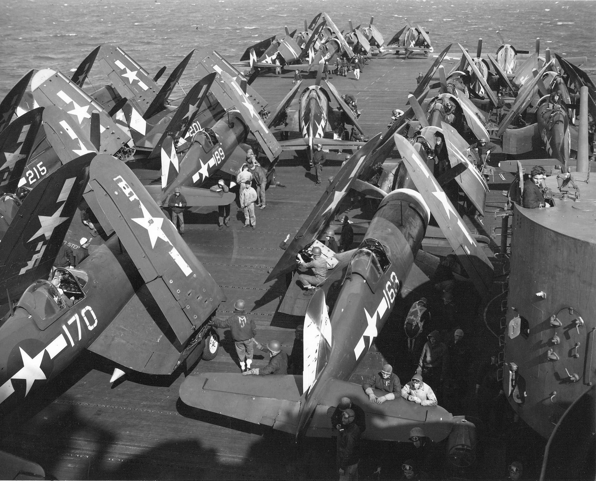 U.S. Navy Vought F4U-1D Corsair and Grumman F6F-5 Hellcat fighters assigned to Carrier Air Group 83 (CVG-83) aboard the aircraft carrier USS Essex (CV-9) during operations off Okinawa, circa May 1945.